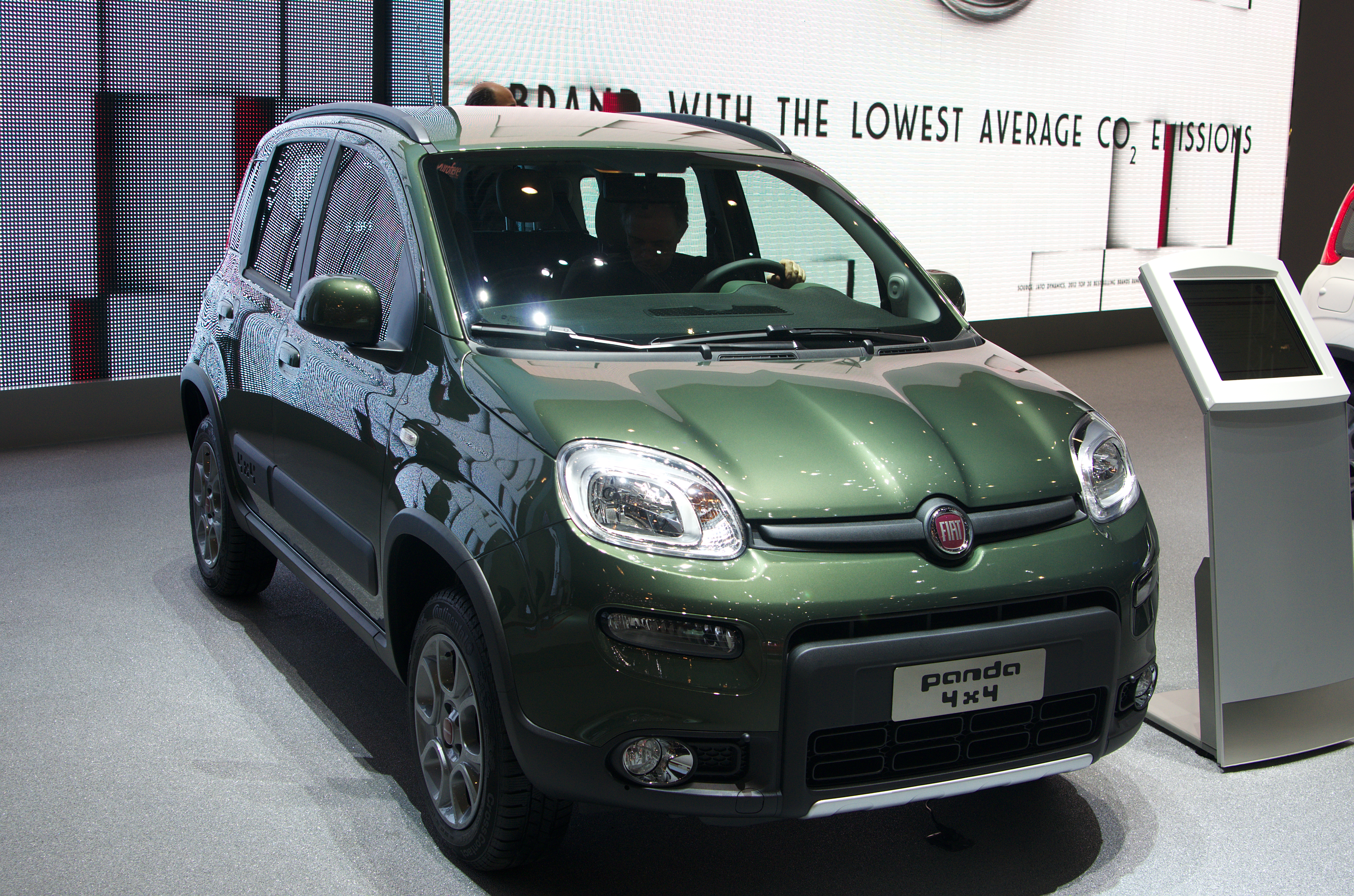 Geneva MotorShow 2013 - Fiat Panda 4X4 olive